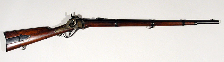 The 1859 Berdan Sharps rifle.